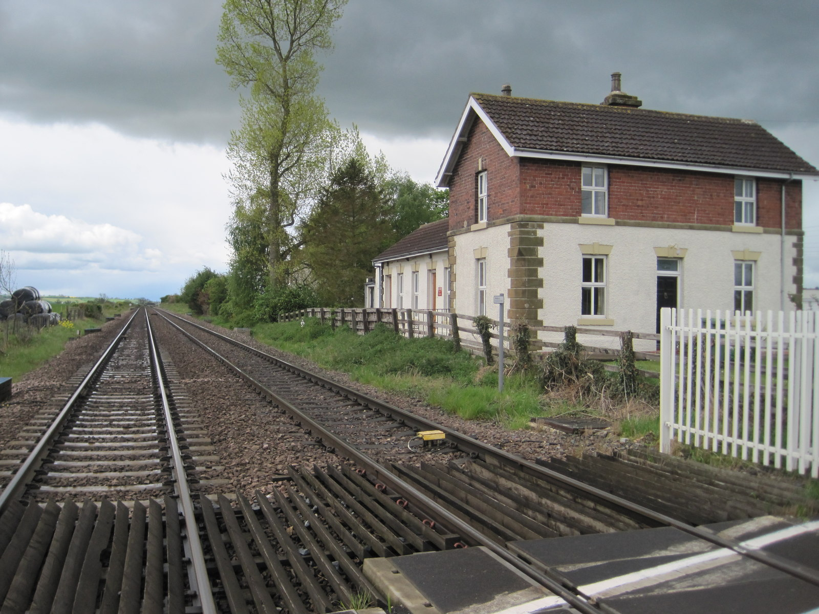 Welbury railway station (site), YorkshireOpened in 1852 by the Leeds Northern Railway, soon to become part of the North Eastern Railway, on the line from Northallerton to Eaglescliffe, this station closed in 1963. View south west towards Brompton and Northallerton.